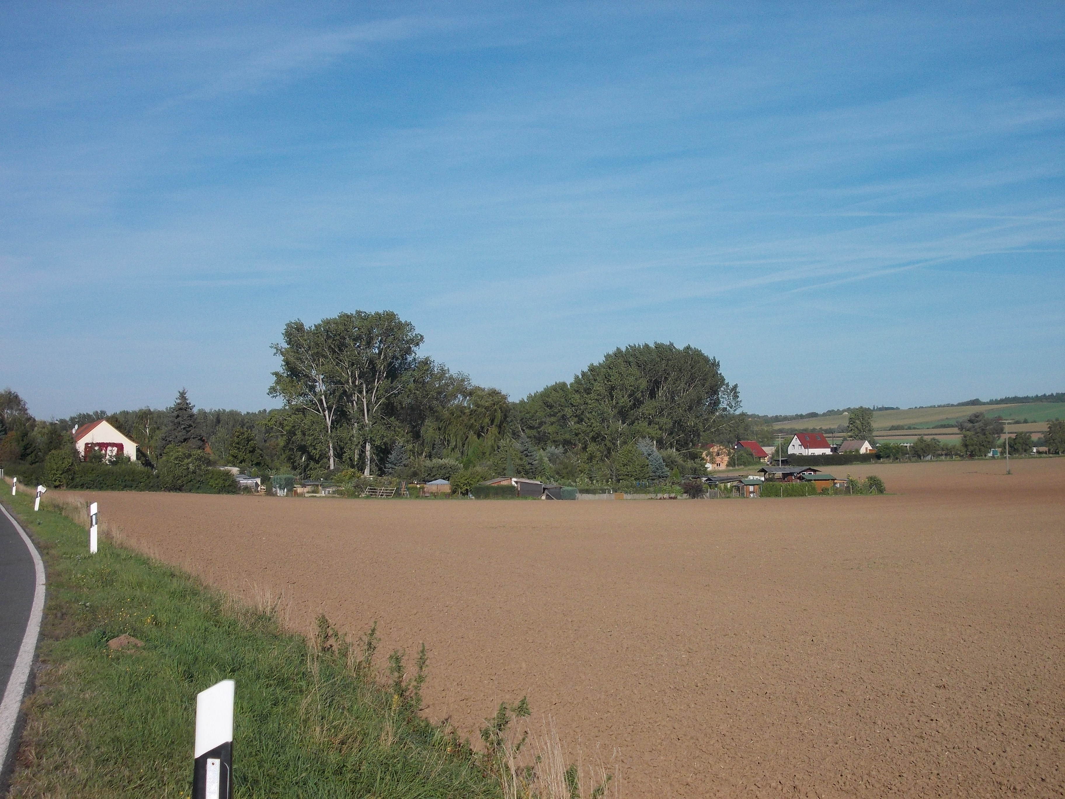 Himmelgarten near Leimbach (Nordhausen, Thuringia) from the east